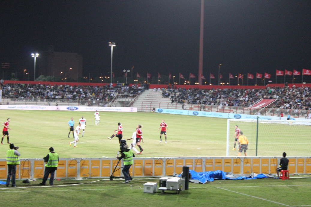 Outside of Al-Rashid Stadium in Dubai (United Arab Emirates). This photo was taken when AC Milan played Paris Saint Germain in January 2012 (1-0, scorer: Pato).